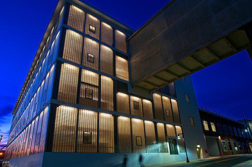 This photo shows Wake Forest Biotech Place, the newest building in Wake Forest Innovation Quarter in Winston-Salem-NC.